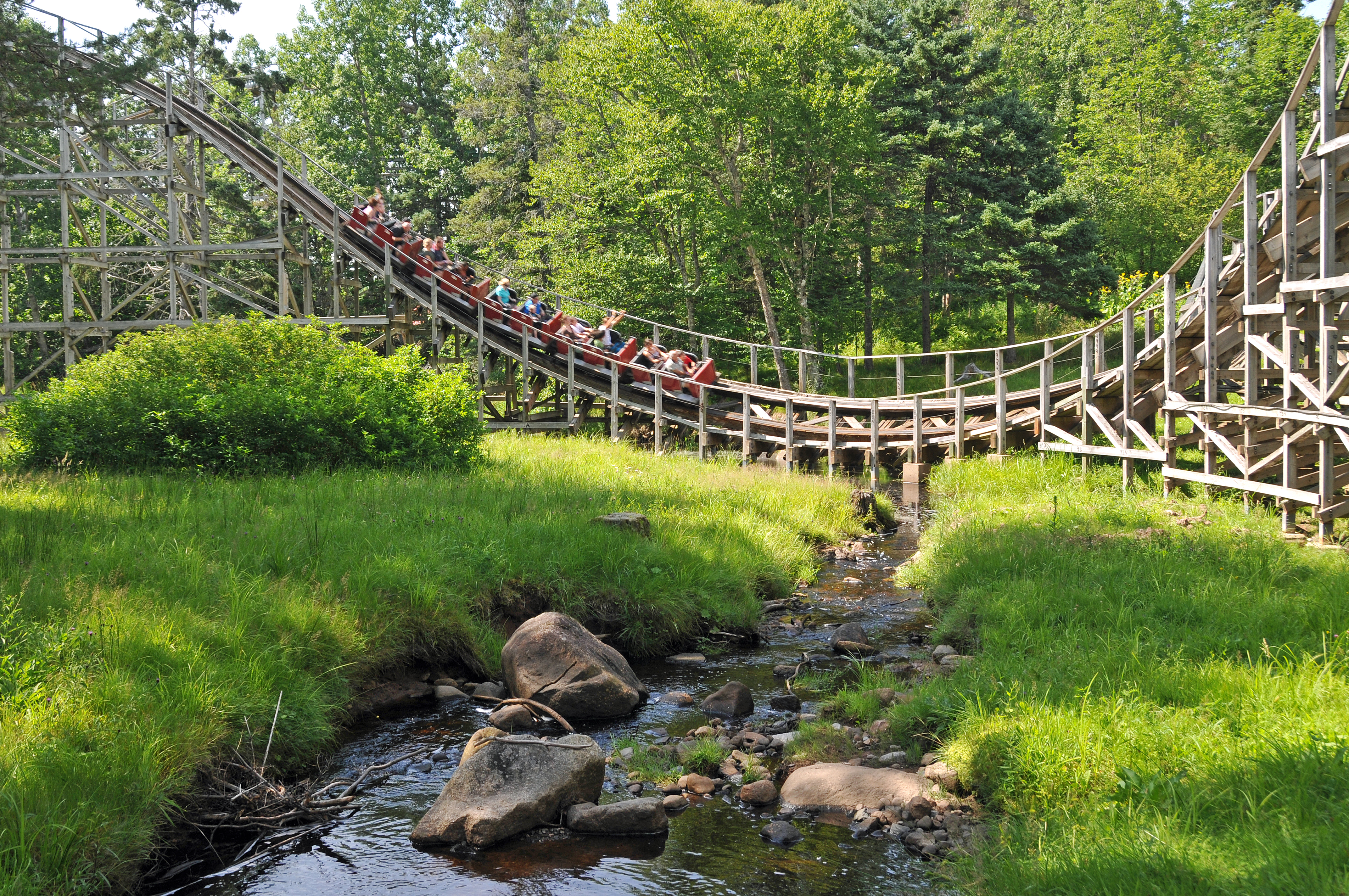 PLEASE, no multi invitations in your comments. DO NOT FEEL YOU HAVE TO COMMENT.Thanks. There is a small wooden roller coaster at the park, small but fun. I did not go on any of the rides at the park.